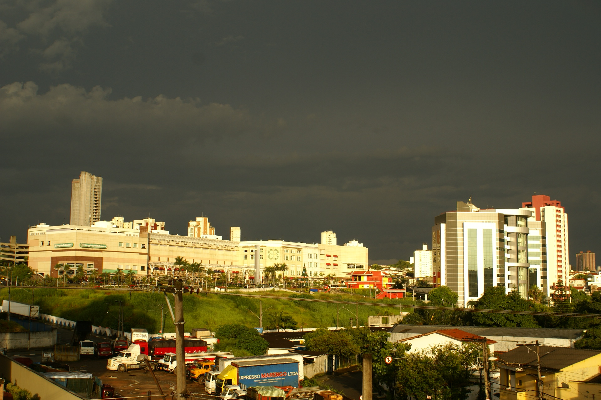 Shopping and Hospital Anália Franco, Jardim Anália Franco neighborhoods, in São Paulo City.